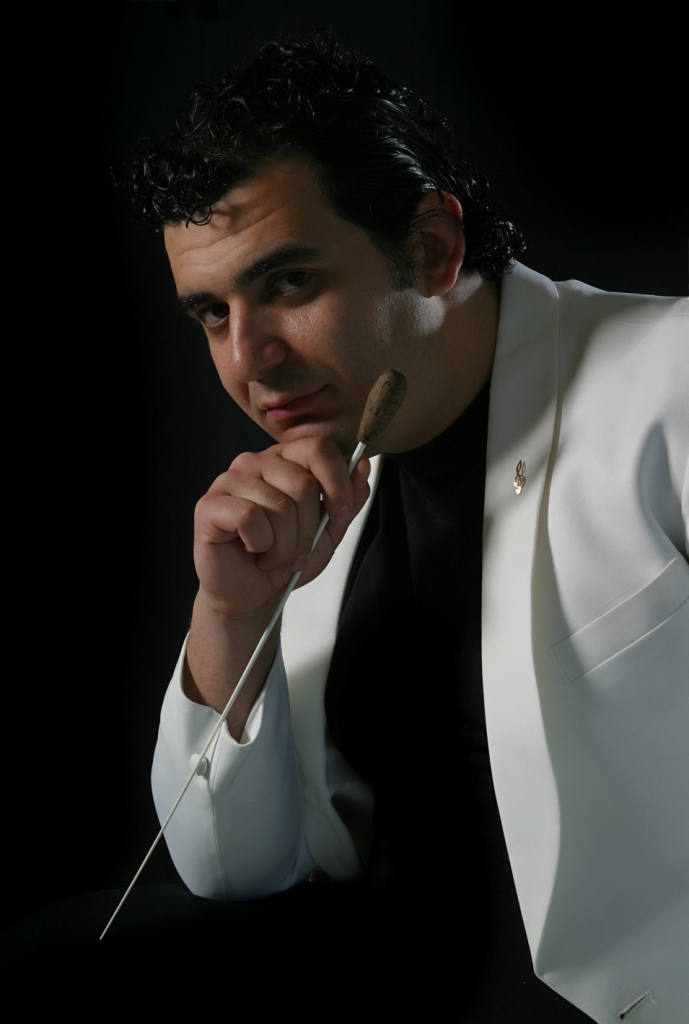 Photo of maestro Gevorg Sargsyan. Taken in Yerevan, Armenia.